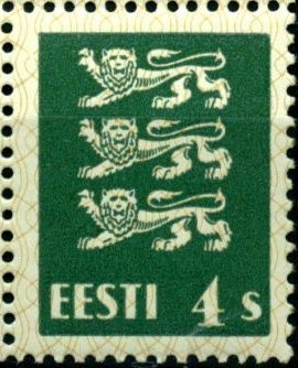 Postage stamps and postal history of Estonia. Location: Estonia, Tallinn.